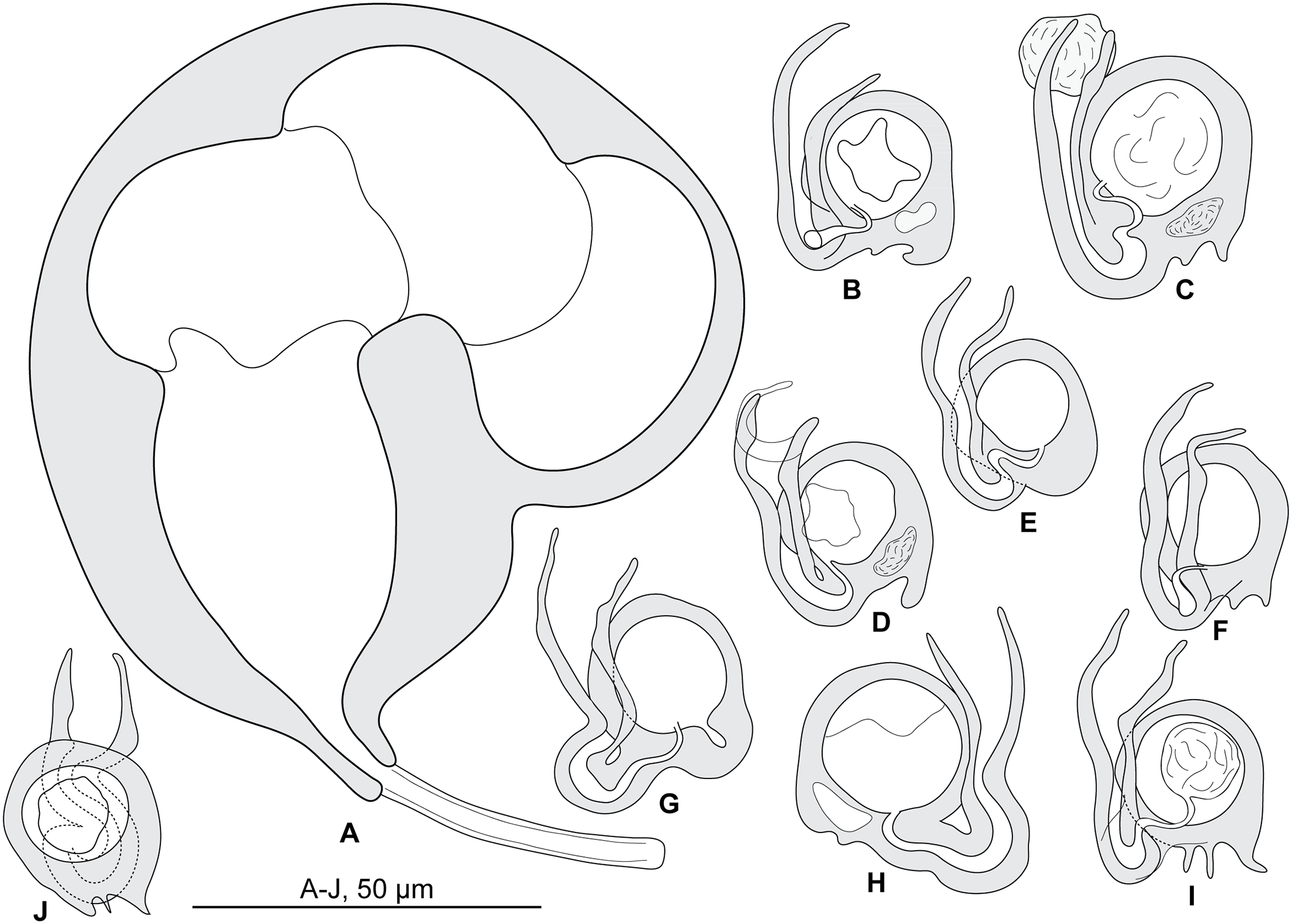 Figure 6 of paper Pseudorhabdosynochus enitsuji from Mycteroperca costae, quadriloculate organ and various morphologies of vagina A, quadriloculate organ; B-J, vaginae. A, B-D, G-J, Tunisia, MNHN HEL562; E-F, Tunisia, MNHN 36HG (deposited by Neifar & Euzet). A-D, G-J, Berlese; E-F, picrate.